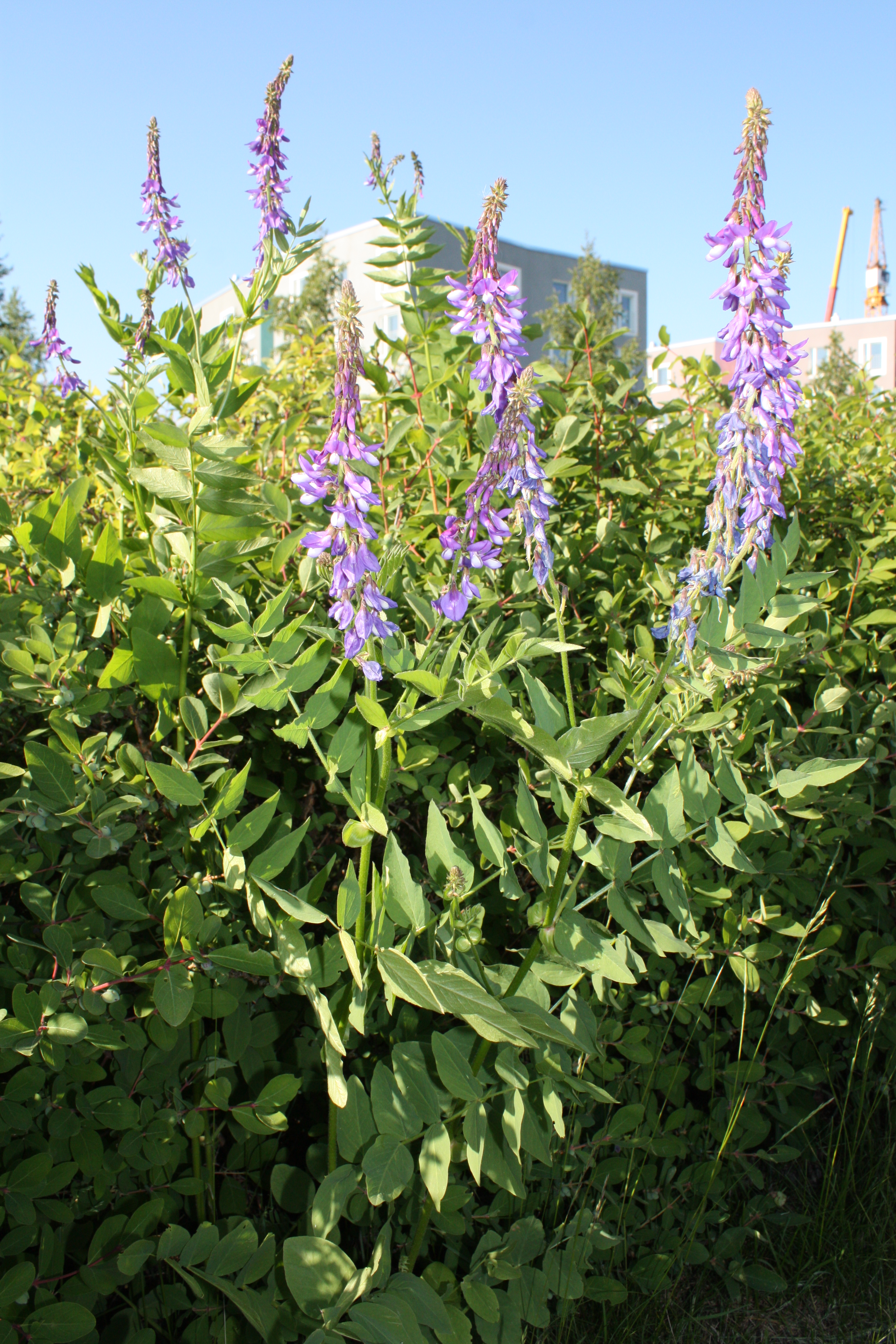 Galega orientalis is flowering amidst the bushes in Gardenia-Helsinki Botanical Garden in Finland.